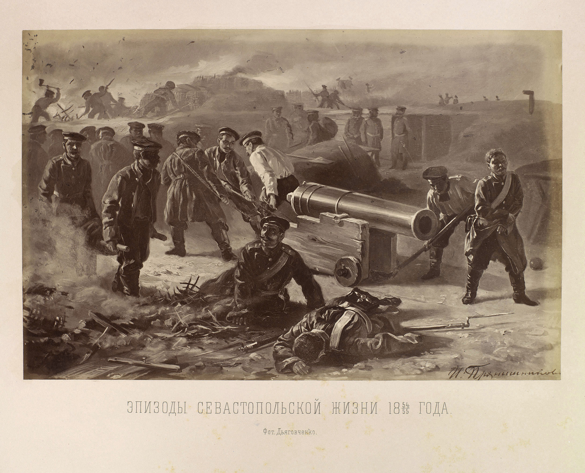 A night on the bastion during the siege of Sevastopol (1854-1855) Part of an album of paintings showing scenes from the siege of Sevastopol 1854-55 and exposed at the 1872 Moscow Polytechnic Exhibition